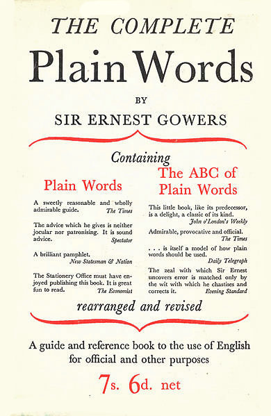 Cover of the Complete Plain Words by Ernest Gowers